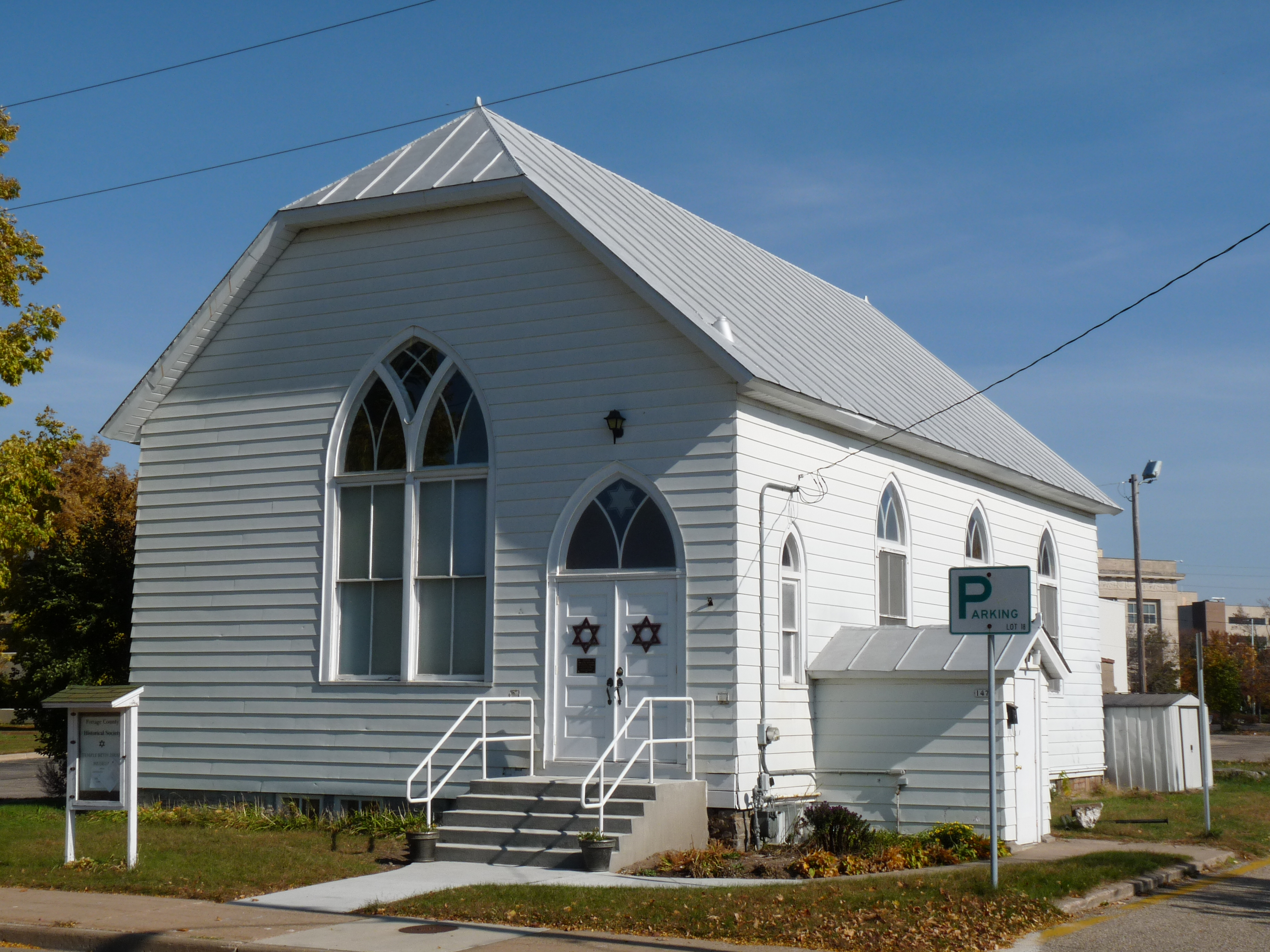 Temple Beth Israel is a synagogue built in 1905 by a Jewish community in and around Stevens Point, Wisconsin. It served the community until 1985. It is now a museum and is on the National Register of Historic Places.